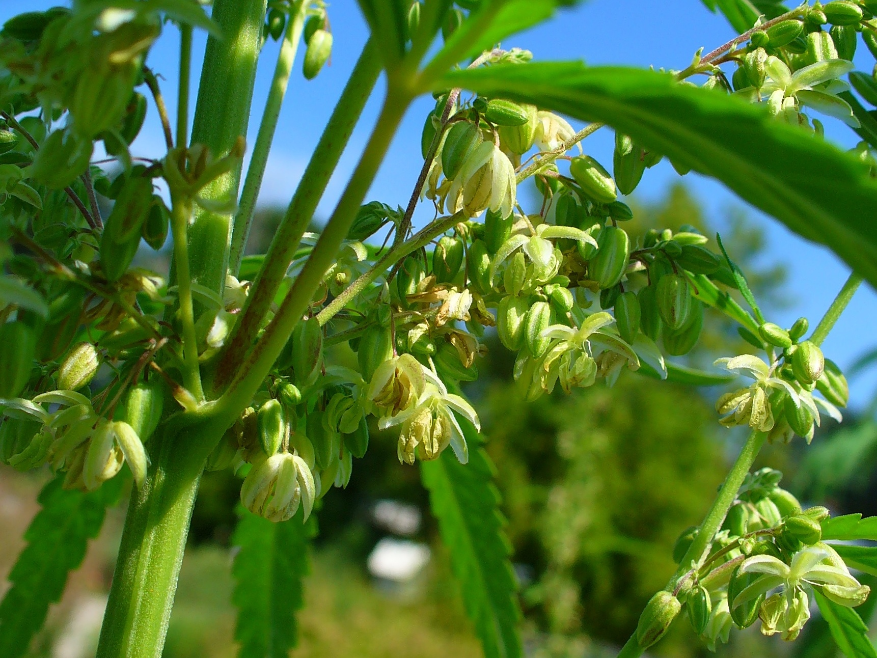 Cannabis sativa, Cannabaceae, Cannabis, male flowers; Botanical Garden KIT, Karlsruhe, Germany. The fresh aerial parts of the plant are used in homeopathy as remedy: Cannabis sativa (Cann-s.)